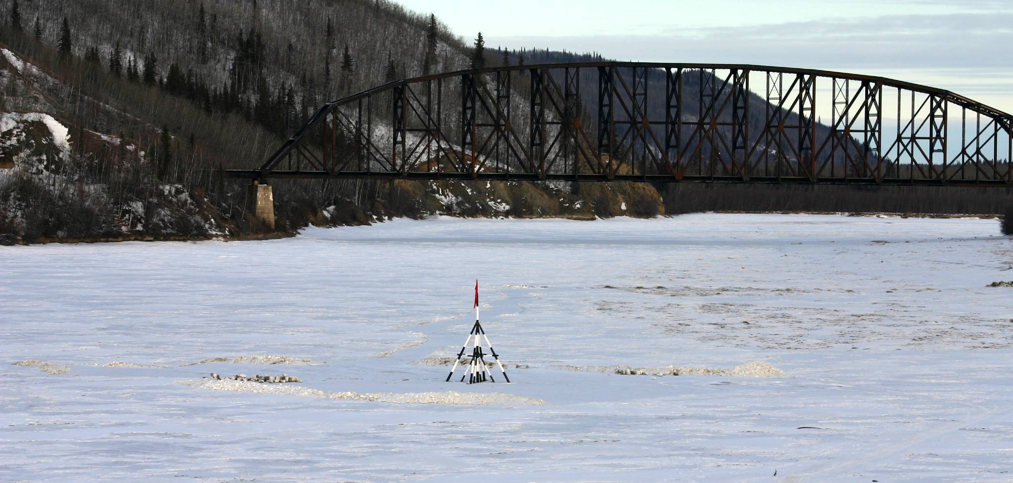 Taken during a road trip from Anchorage to Fairbanks in March 2008.